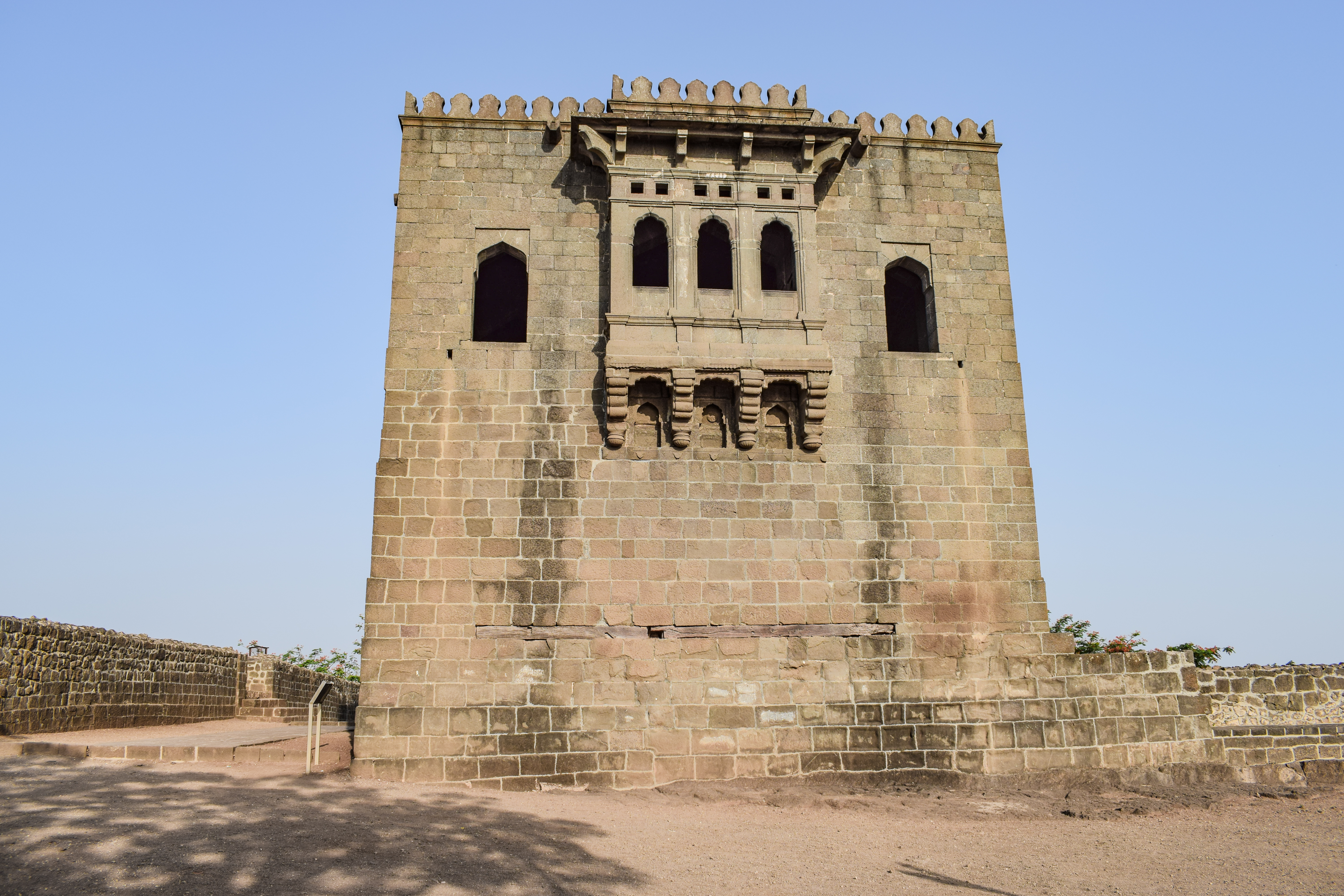 shivneri fort